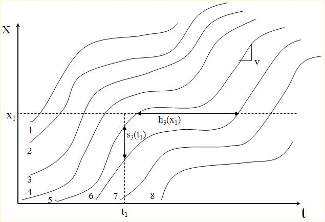 Traffic flow time-space diagram showing vehicle velocity, headway, and spacing.